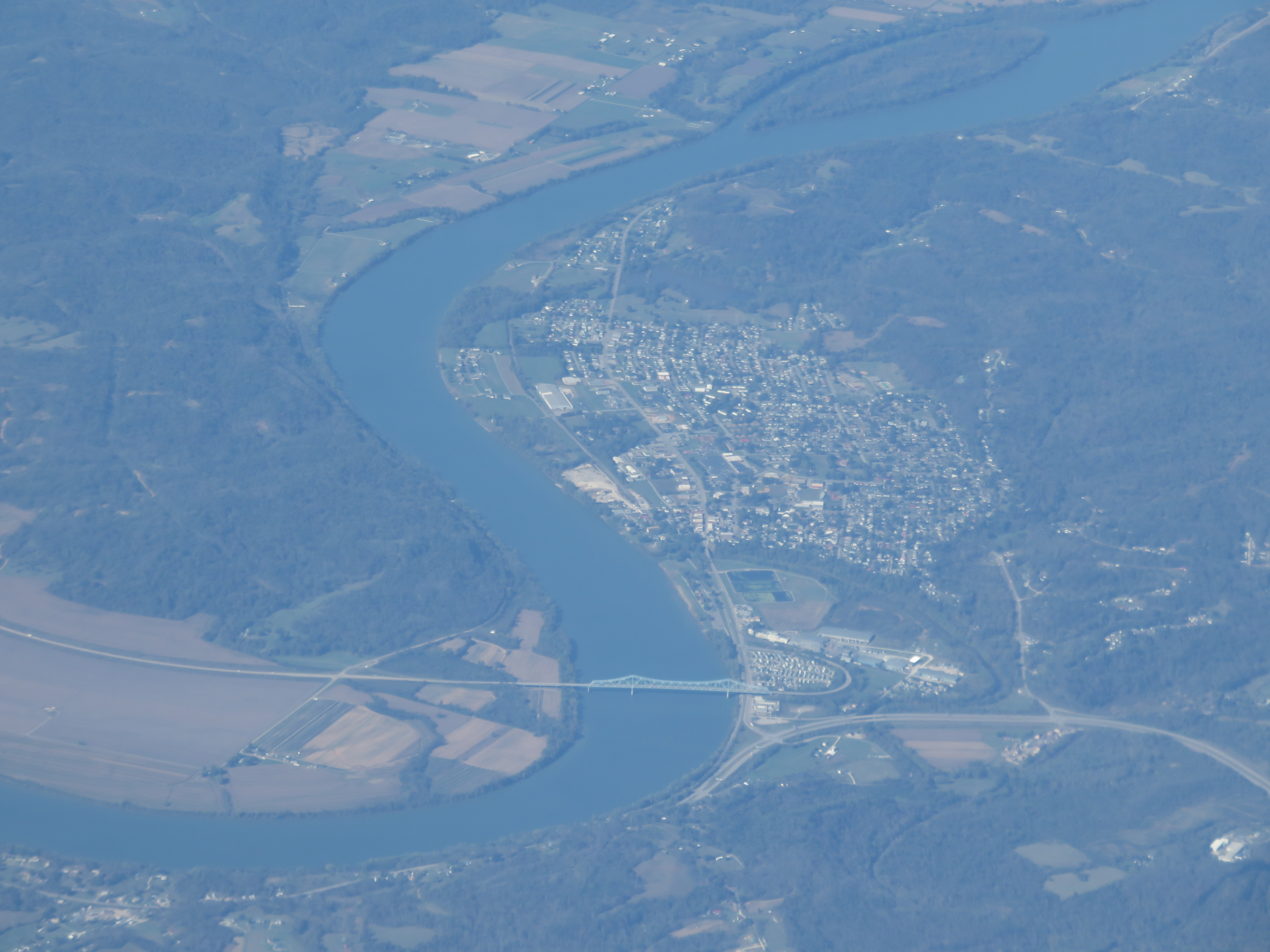 Aerial view of the Ravenswood Bridge over the Ohio River in 2017